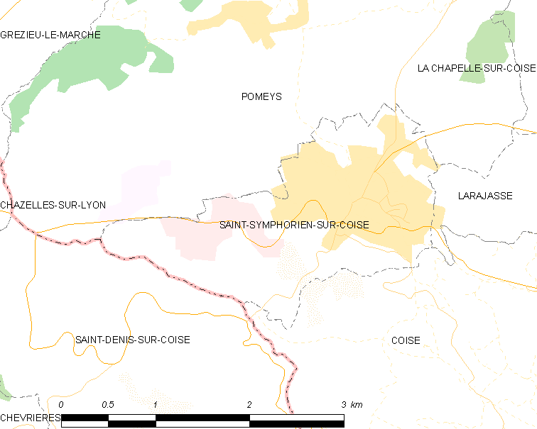 Map of French municipality